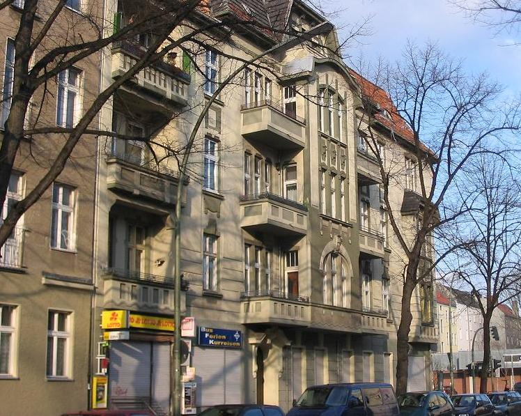 Building Oberlandstraße 1/corner Eschersheimer Straße in Berlin-Tempelhof